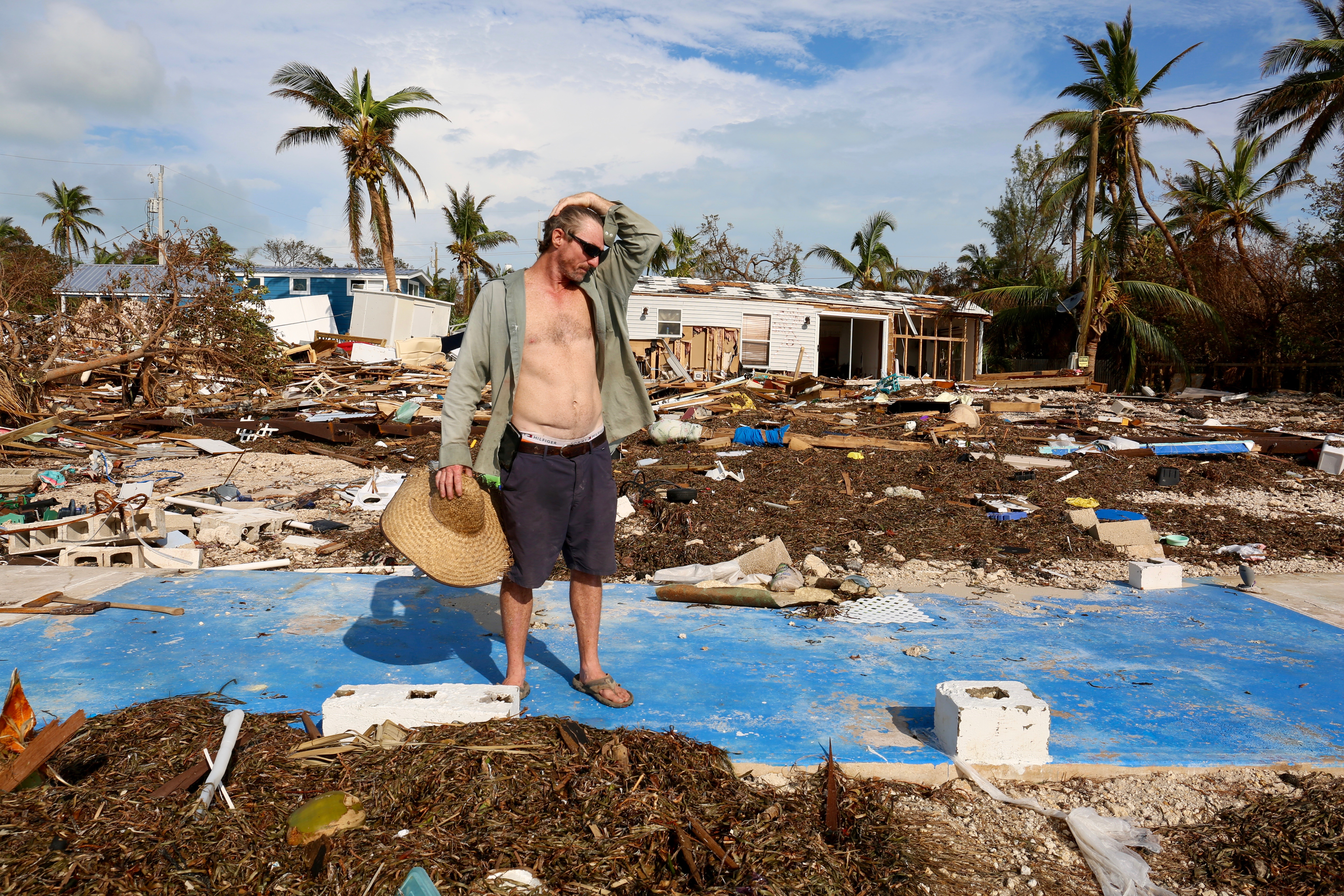 Billy “The Kid” Quinn, 48, assesses the damage atop a blue slab where his home used to be in Islamorada's Seabreeze Trailer Park. (R. Taylor/VOA)